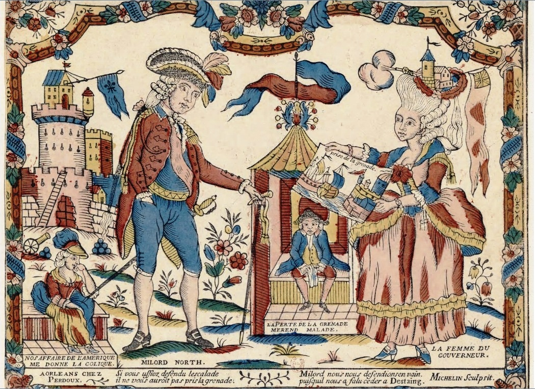 Poster. Lord (or "milord") North and the governor's wife (from Grenada). French propaganda print after the French victory in Grenada in 1779 during the American Revolutionary War. Left: Prime Minister, Lord North, lowering his head to the wife of the governor Grenada, who shows him a picture of the capture of Grenada by the French. Seated in the center: the King of England: "The loss of Grenada makes me sick." Seated at left, Albion (Britannia): "Our business of America gives me the colic." Below: Lord North, "If you had defended against the climbing (of the walls with ladders), he would not have taken Grenada from you." Response of the governor's wife: "My lord, we defended ourselves in vain, and then had to cede to Count d'Estaing." The governor's wife is depicted in a version of extreme late-1770s fashions (see File:Mlle Des Victoire coiffure à la Grenade 1779.jpg), with a version of a British ensign hanging down from the back of her hair. A fleur-de-lis banner hangs from the wall of the fortress.